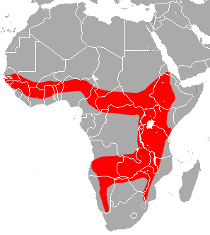 Ruppell's Horseshoe Bat (Rhinolophus fumigatus) range